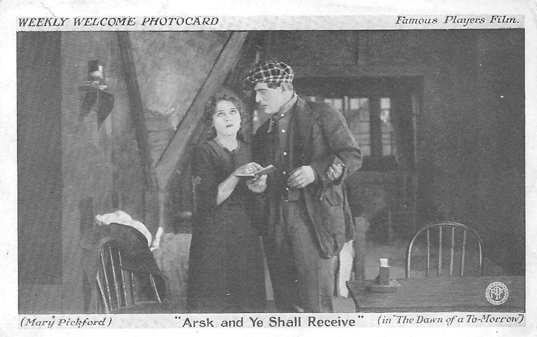 The Dawn of a Tomorrow is a 1915 American silent film starring Mary Pickford, produced by Adolph Zukor's Famous Players Film Company and directed by James Kirkwood. The source link claims copyright but being that this was published in 1915 I think that is a mistakenly selected license.